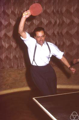 Subject: László Fejes Tóth Location: Oberwolfach Author: Danzer, Ludwig Source: L. Danzer, Dortmund Year: 1958 Copyright: Photo ID: 7586